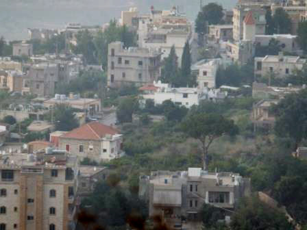 Abadiyeh, Lebanon, 2011